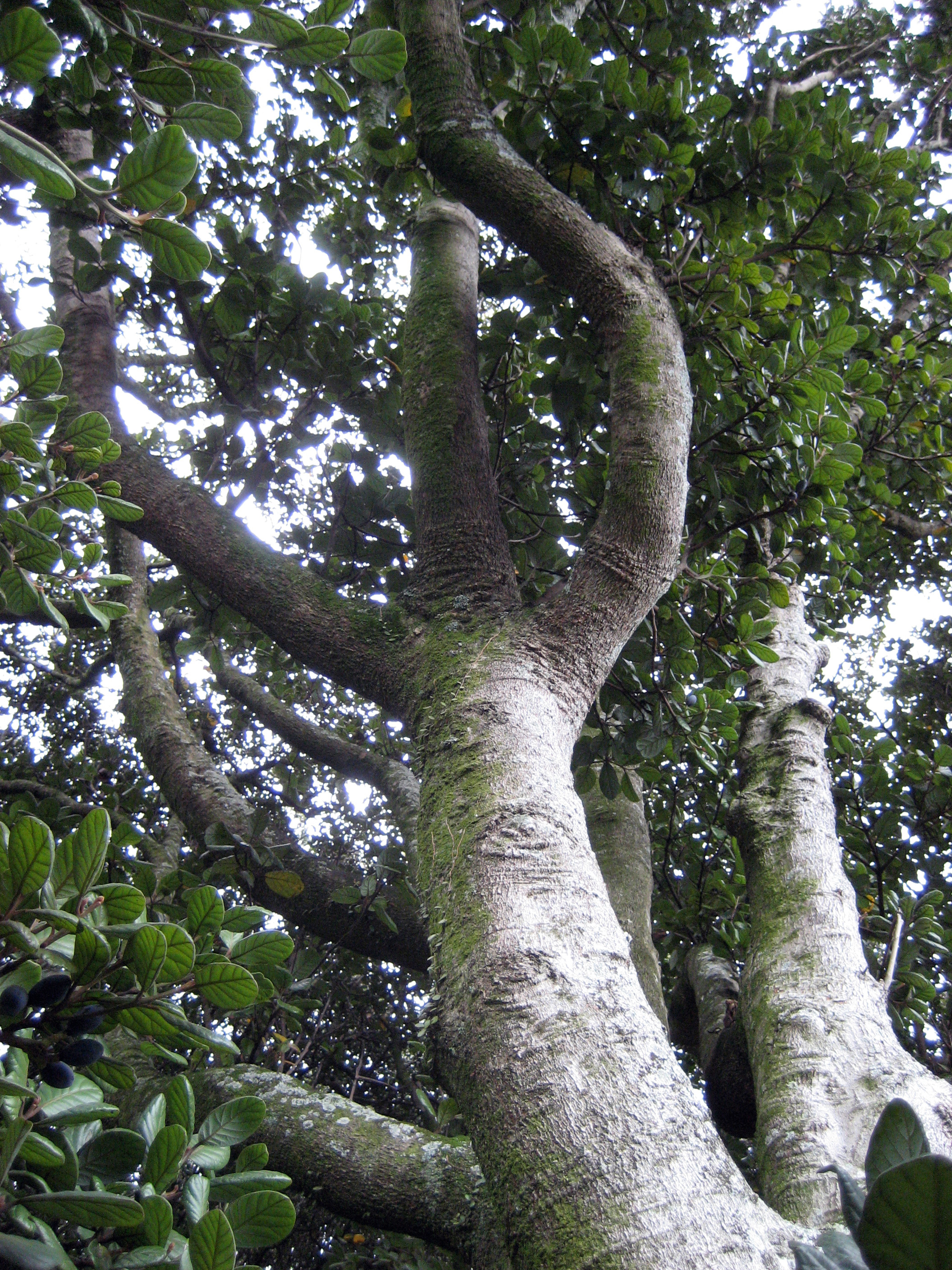 Branches and foliage of Beilschmiedia tarairi, Taraire, Lauraceae, New Zealand